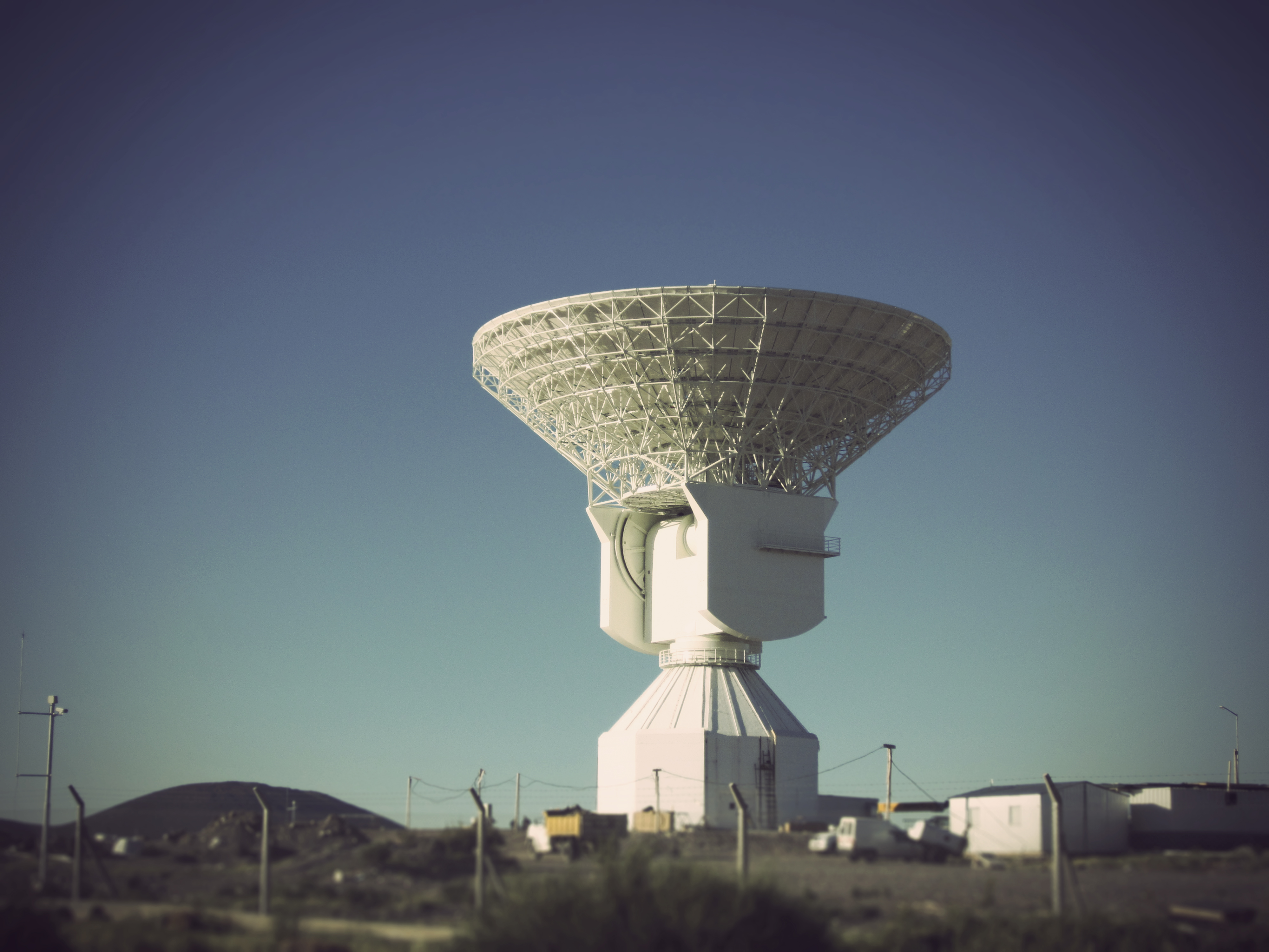 ESA's DSA (Deep Space Antenna) 3 antenna, a 35-meter antenna located in an area 30 km south of the town of Malargüe in Mendoza province, Argentina. It is part of part of the ESA Tracking (ESTRACK) network.